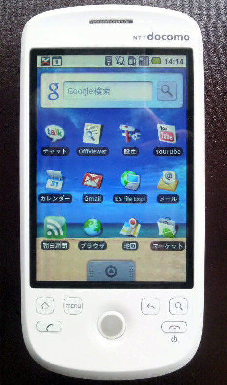 NTT docomo HT-03A smartphone running the Android 1.6 Donut software stack